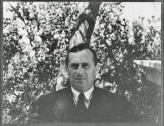 Joan Miró photo taken by Carl Van Vechten Portrait of Joan Miró